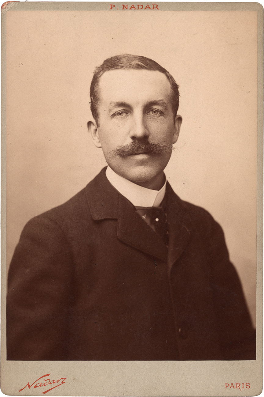 Portrait of Albert Carré, actor (1852-1938). Photo by Félix Nadar, Parigi, before 1938.